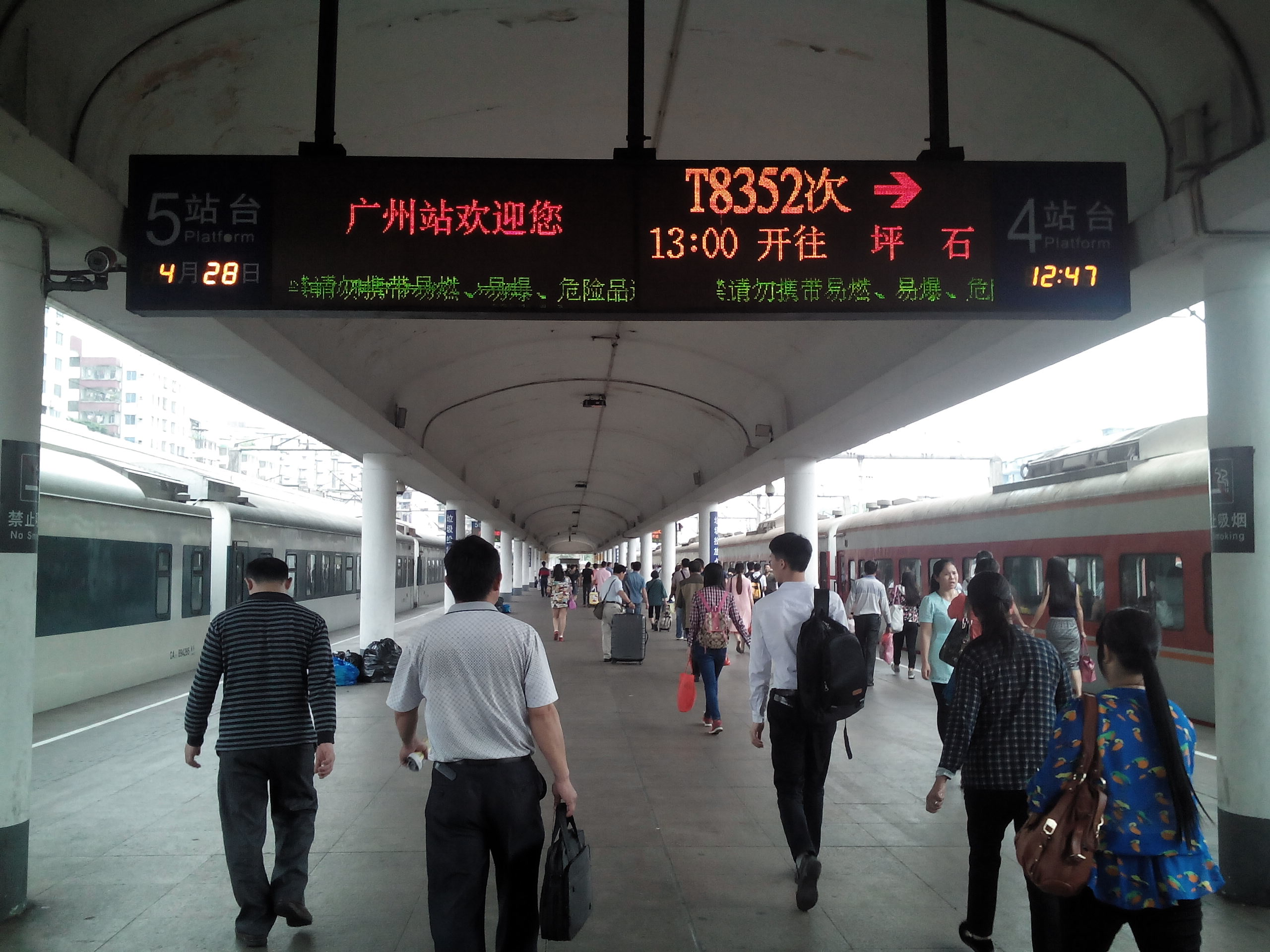 201504 T8352 and Z90 at Guangzhou Station